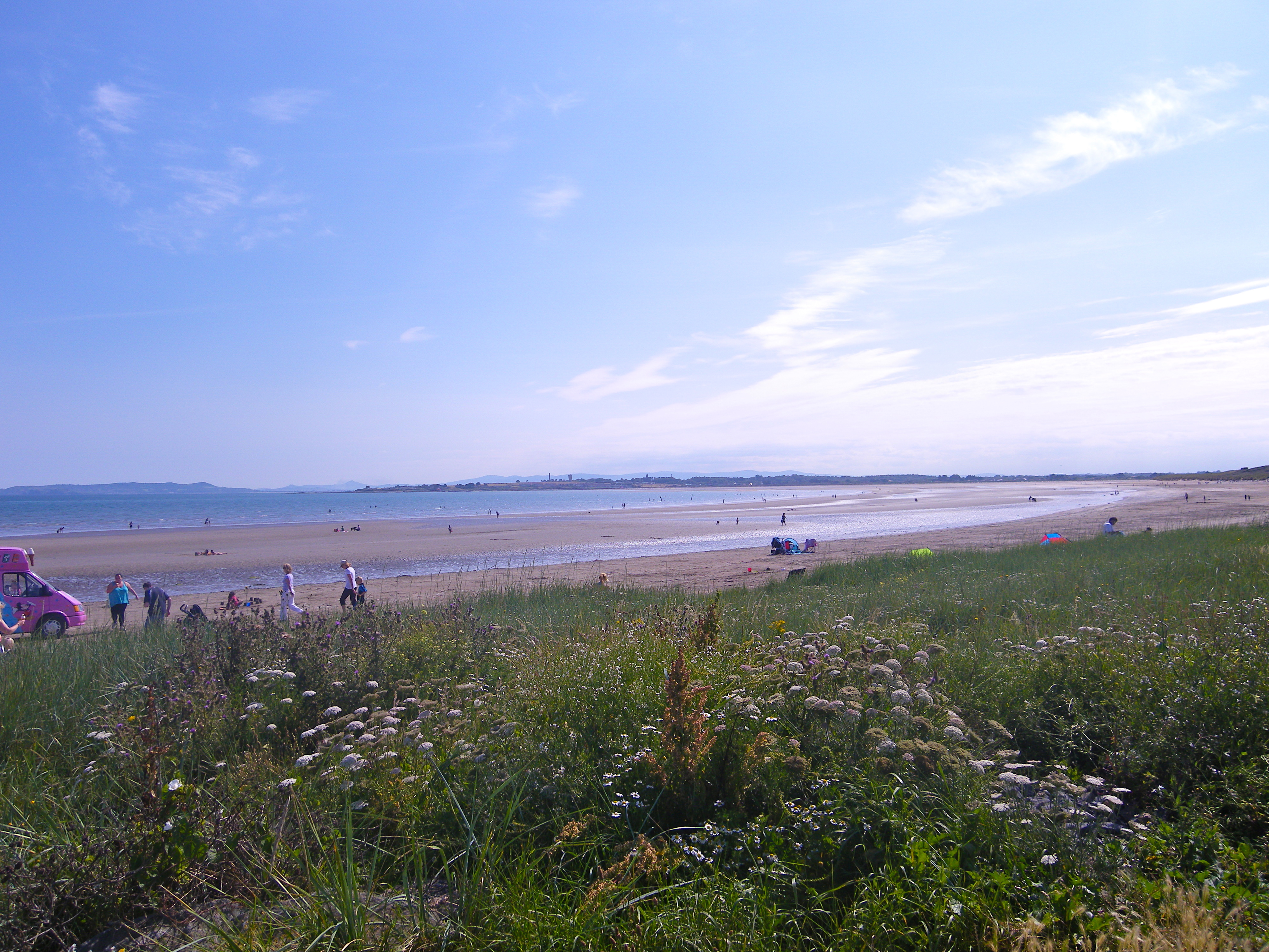 The beach, Rush, Dublin, Ireland.